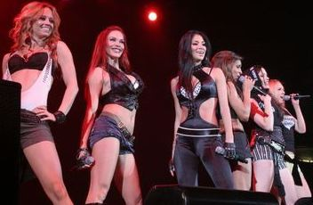 The Pussycat Dolls at the Tacoma Dome in Washington. From left to right: Kimberly Wyatt, Carmit Bachar, Nicole Scherzinger, Melody Thornton, Jessica Sutta, and Ashley Roberts.